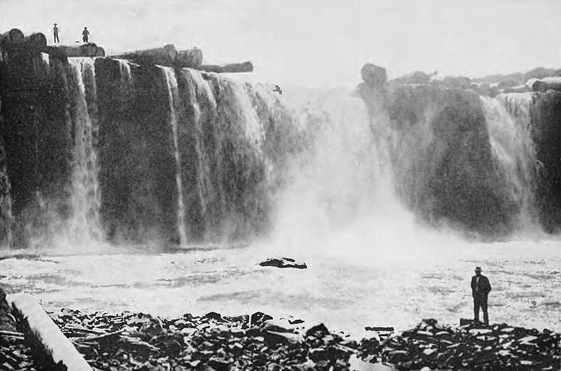 Wairua Falls, Northland - kauri logs (Agathis australis) being floated to a mill. Image from a scanned PD book